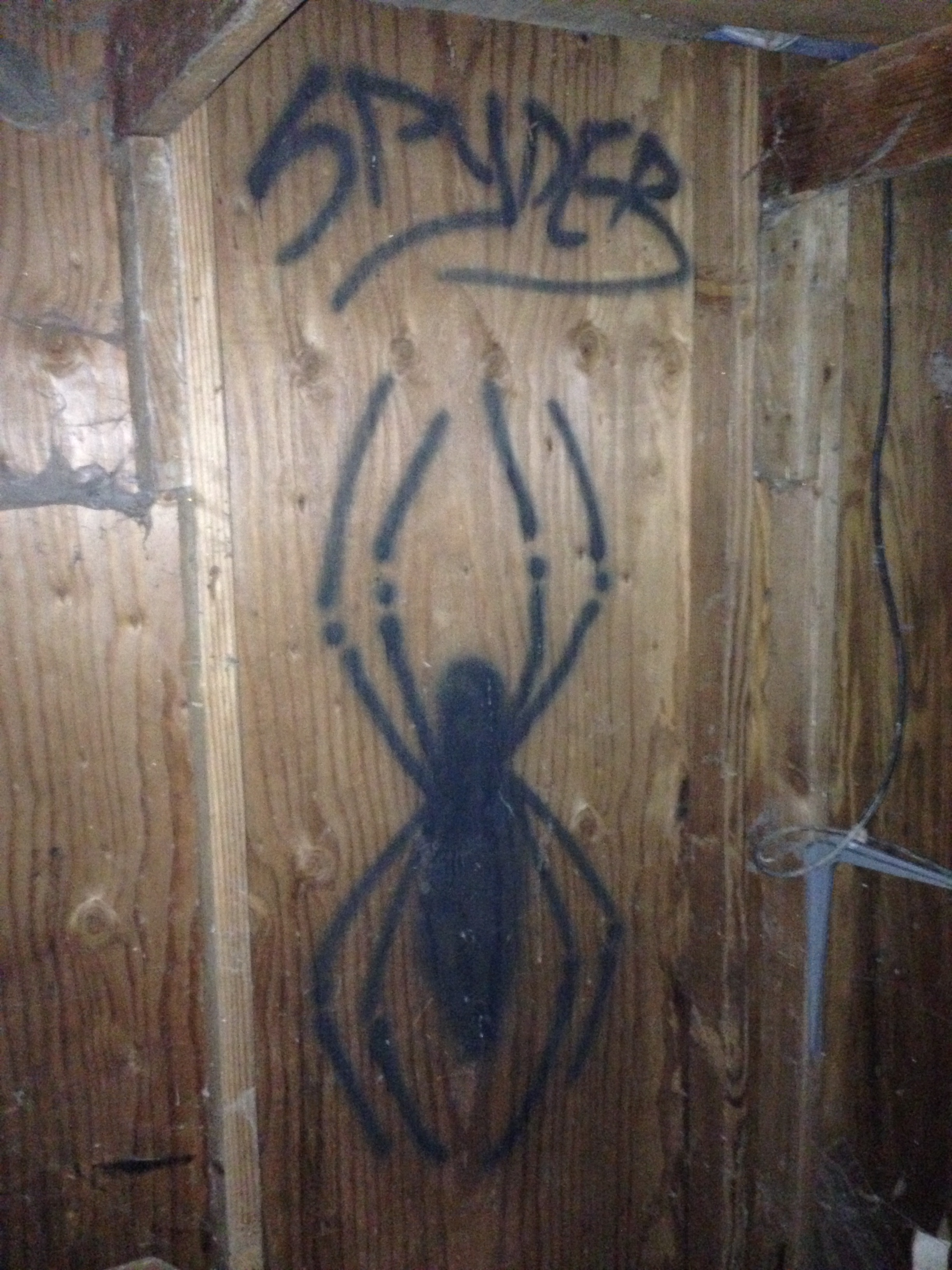 Graffiti by MMP gang leader Spyder. For more information on this gang, see the book "Preventing Crime in America and Japan: A Comparative Study" by author Robert Y. Thornton, which describes MMP as "the largest Salem gang" and claims the acronym stands for "mean master poppers." [1] MMP is also mentioned on the City of Salem website: More information about this gang can be found at this website